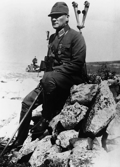 Kemal Atatürk (or alternatively written as Kamâl Atatürk, Mustafa Kemal Pasha until 1934, commonly referred to as Mustafa Kemal Atatürk; 1881 – 10 November 1938) was a Turkish field marshal, revolutionary statesman, author, and the founding father of the Republic of Turkey, serving as its first President from 1923 until his death in 1938. He undertook sweeping progressive reforms, which modernized Turkey into a secular, industrial nation. Ideologically a secularist and nationalist, his policies and theories became known as Kemalism. Due to his military and political accomplishments, Atatürk is regarded as one of the most important political leaders of the 20th century.